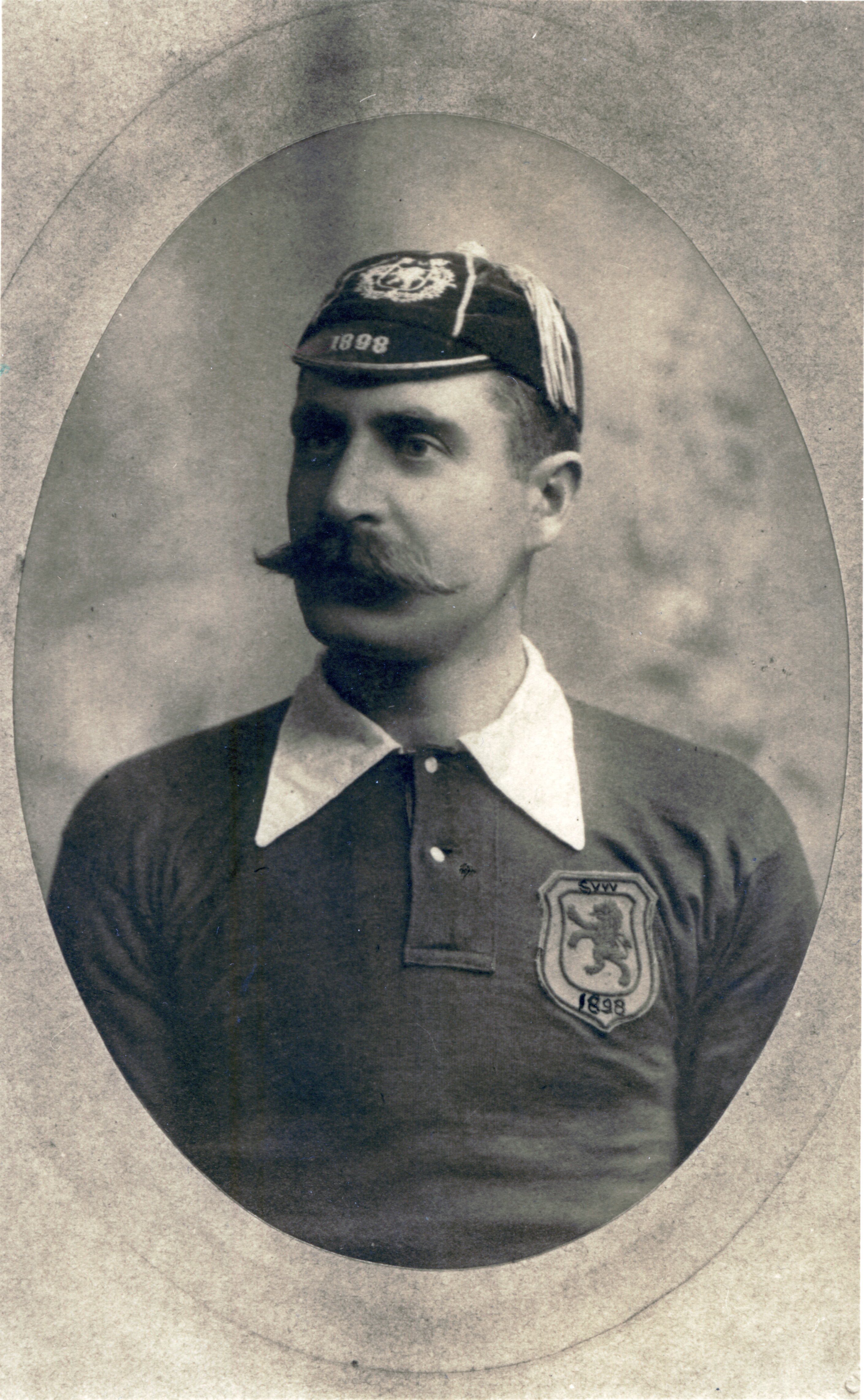 Matthew Mclintock Scott, Scottish footballer (active 1890–1903)